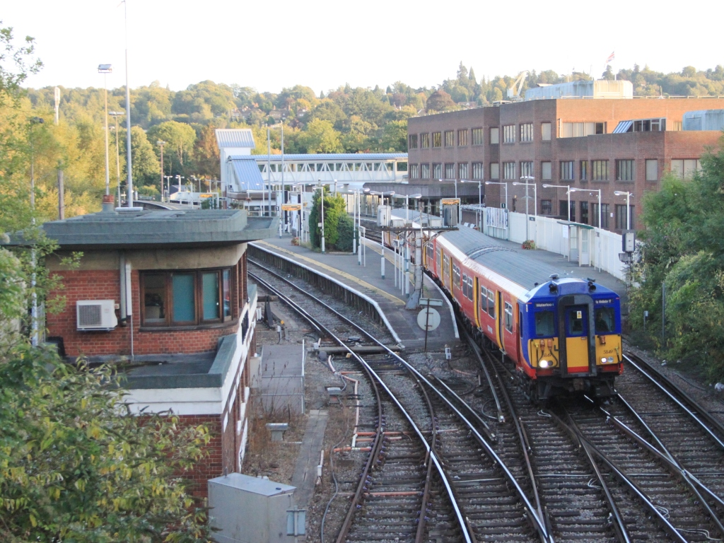 South West Trains' class 455 unit 5849 pulls away from Dorking station at the start of its journey to London Waterloo.